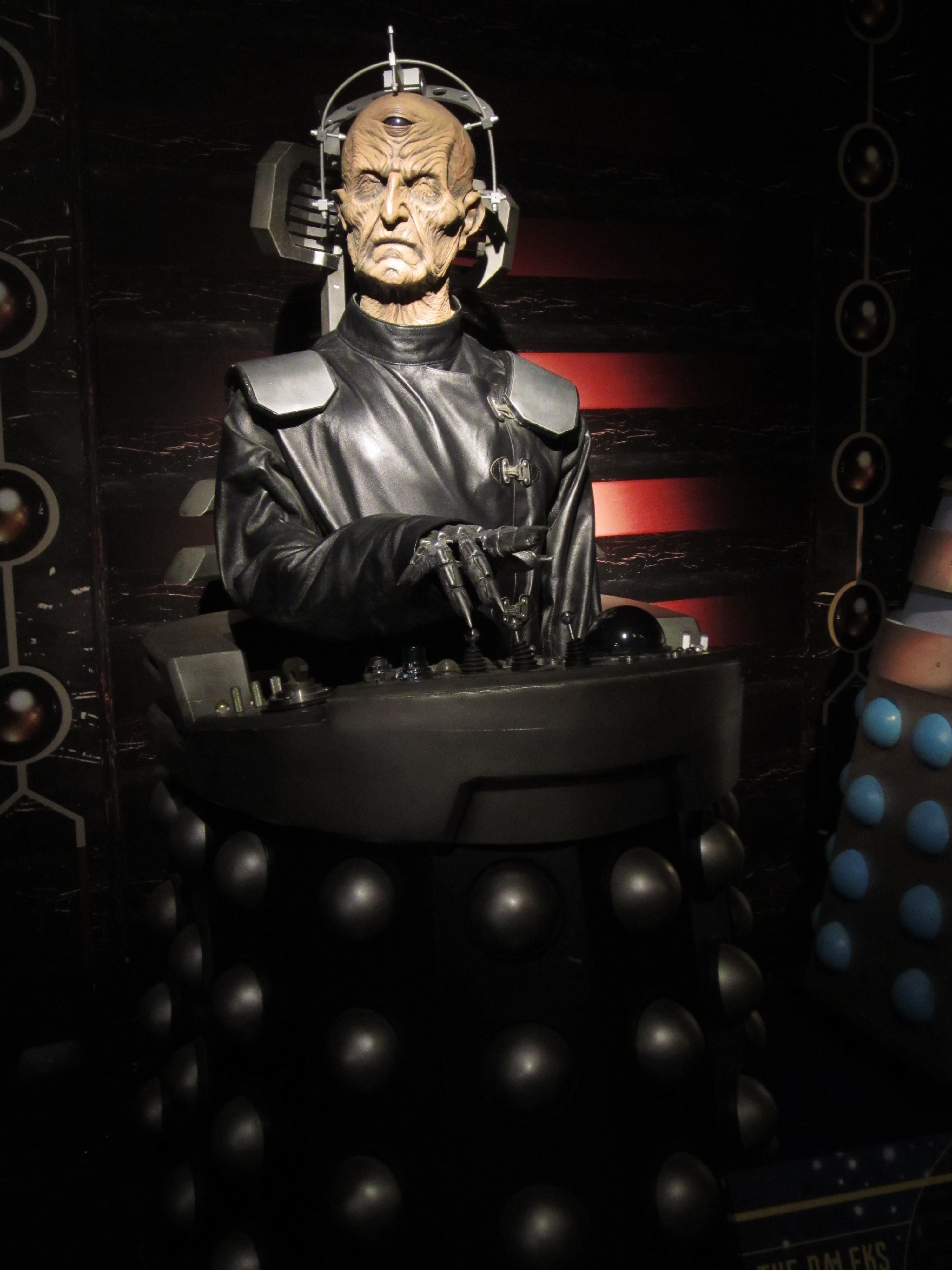 Costumes and prop from Doctor Who, displayed at the Doctor Who Experience in Cardiff.